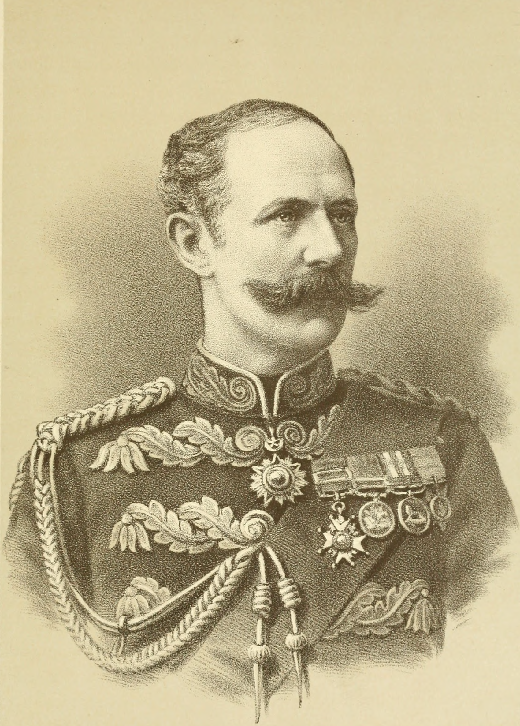 'Major General Sir Herbert Stewart, K.C.B. Commander of the column which crossed the desert from Korti to Metemmeh, January 1885. by permission from a photograph by chancellor, Dublin. Blackie & Son, London, Glasgow, Edinburgh & Dublin.'